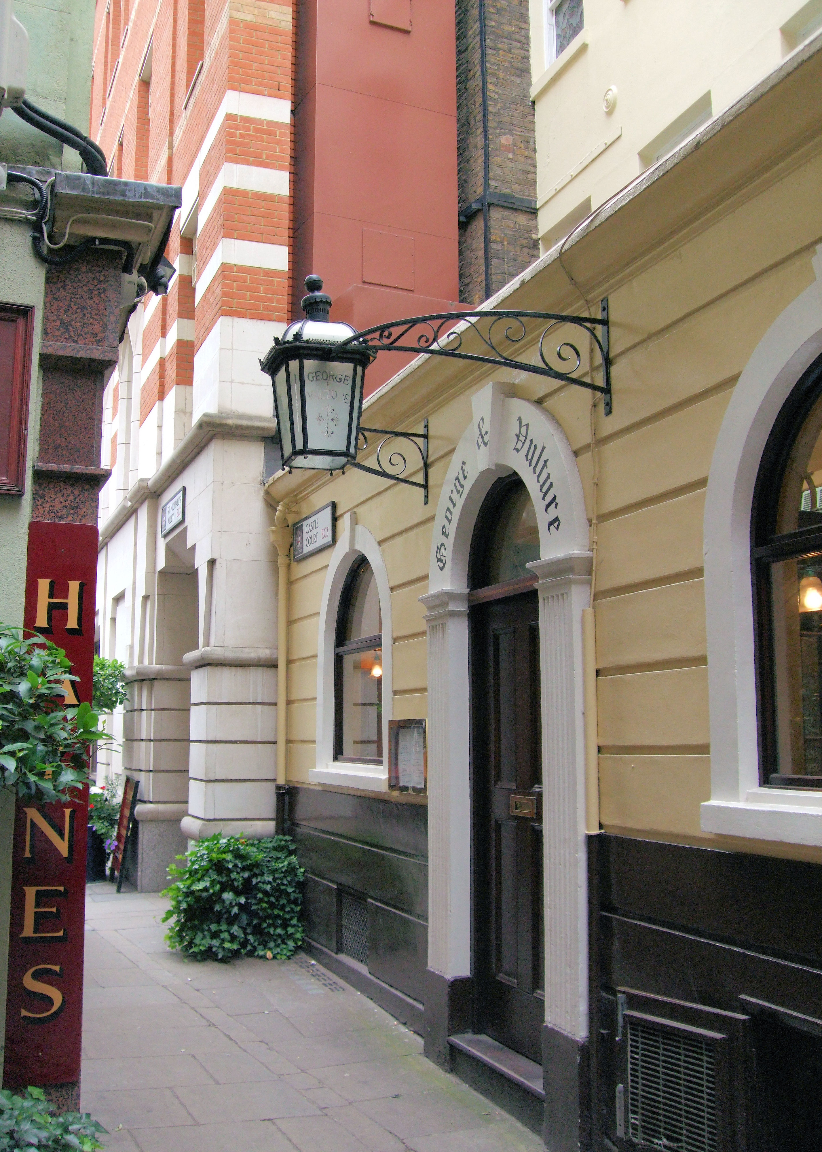 The George and Vulture was built in 1746 as a public house in Castle Court, near Lombard Street, City of London. There has been an inn on the site since 1268. It was said to be a meeting place of the notorious Hell-Fire Club and is now a City chop house. It is mentioned at least 20 times in The Pickwick Papers by Charles Dickens, who frequently drank there himself.